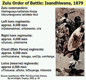 Zulu Order of battle- Isandhlwana